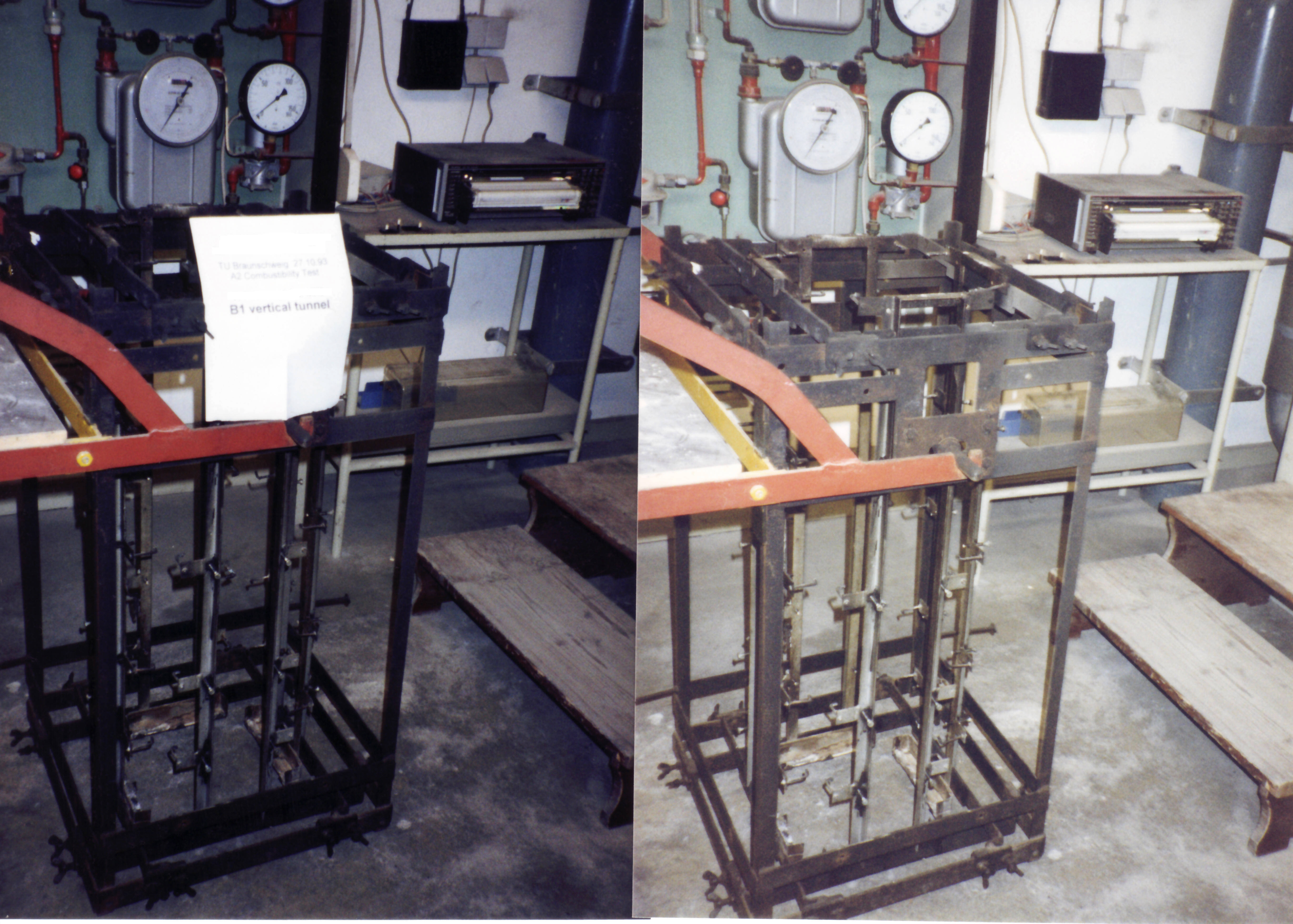 Fire test set up to test flammability as per DIN 4102 to achieve B1 rating (schwerentflammbar = difficult to ignite) at Technische Universität Braunschweig, iBMB, Germany